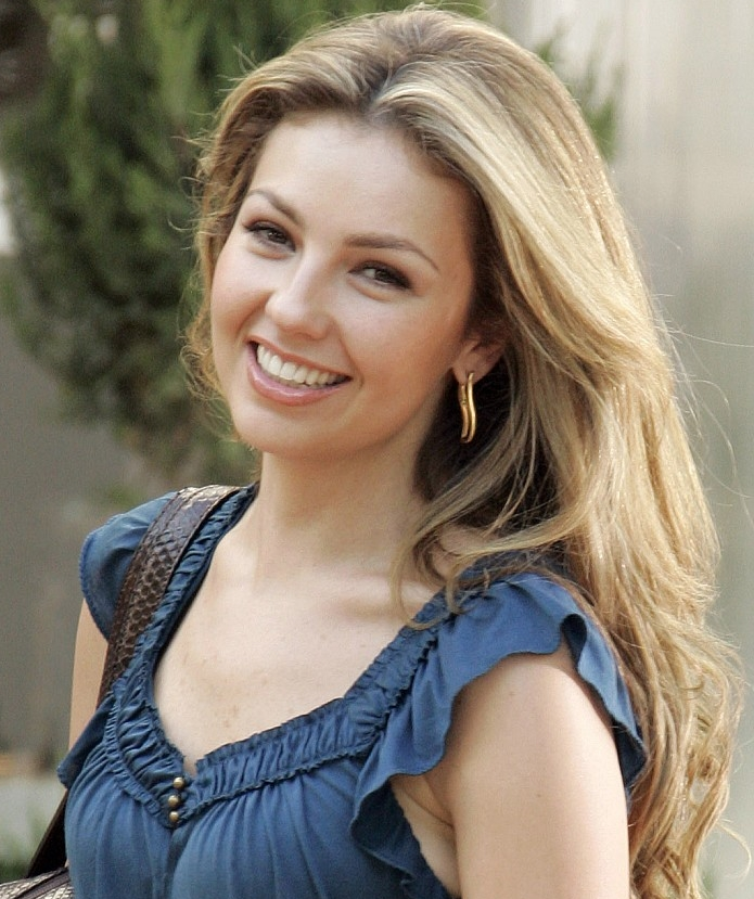 Thalía at a TV commercial shoot in 2006.